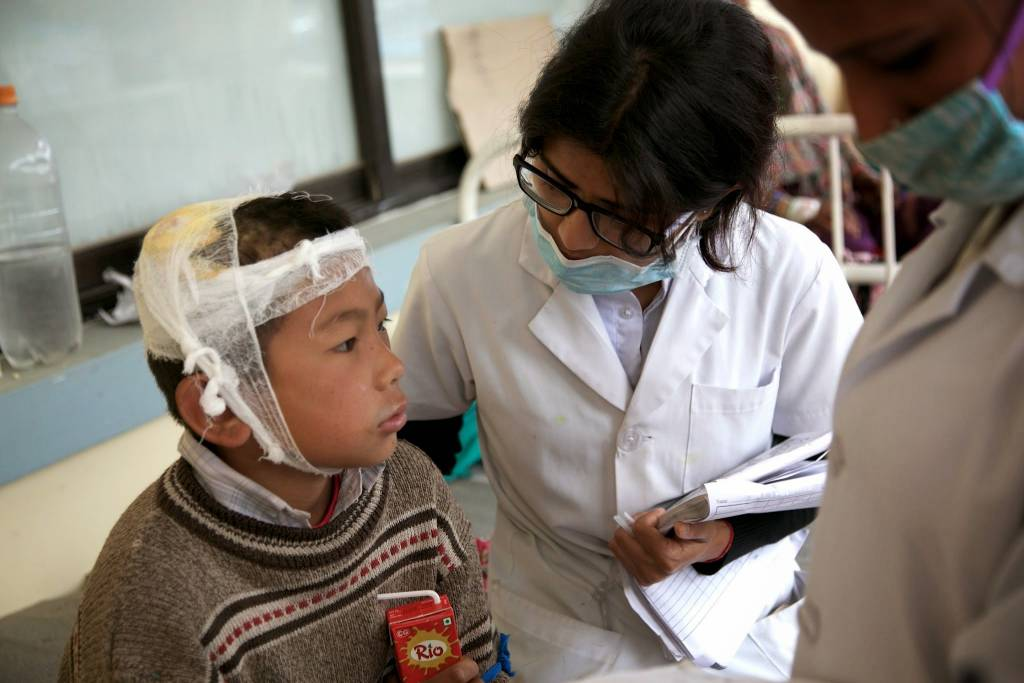 BAPS Charities Nepal Earthquake Relief